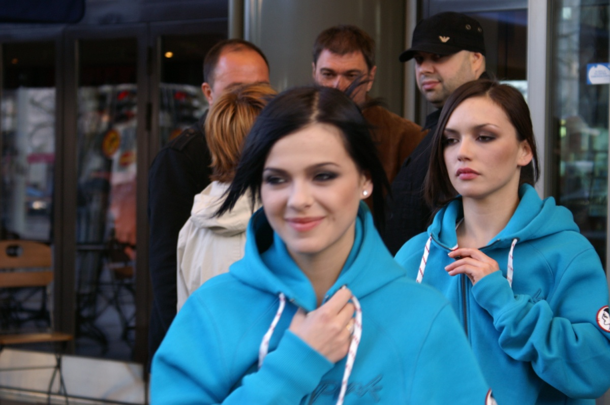 Russian Girlgroup Serebro during the Eurovision Song Contest Week in Helsinki (Elena Temnikova (in front) and Olga Seryabkina). Behind Olga: Their producer Max Fadeev